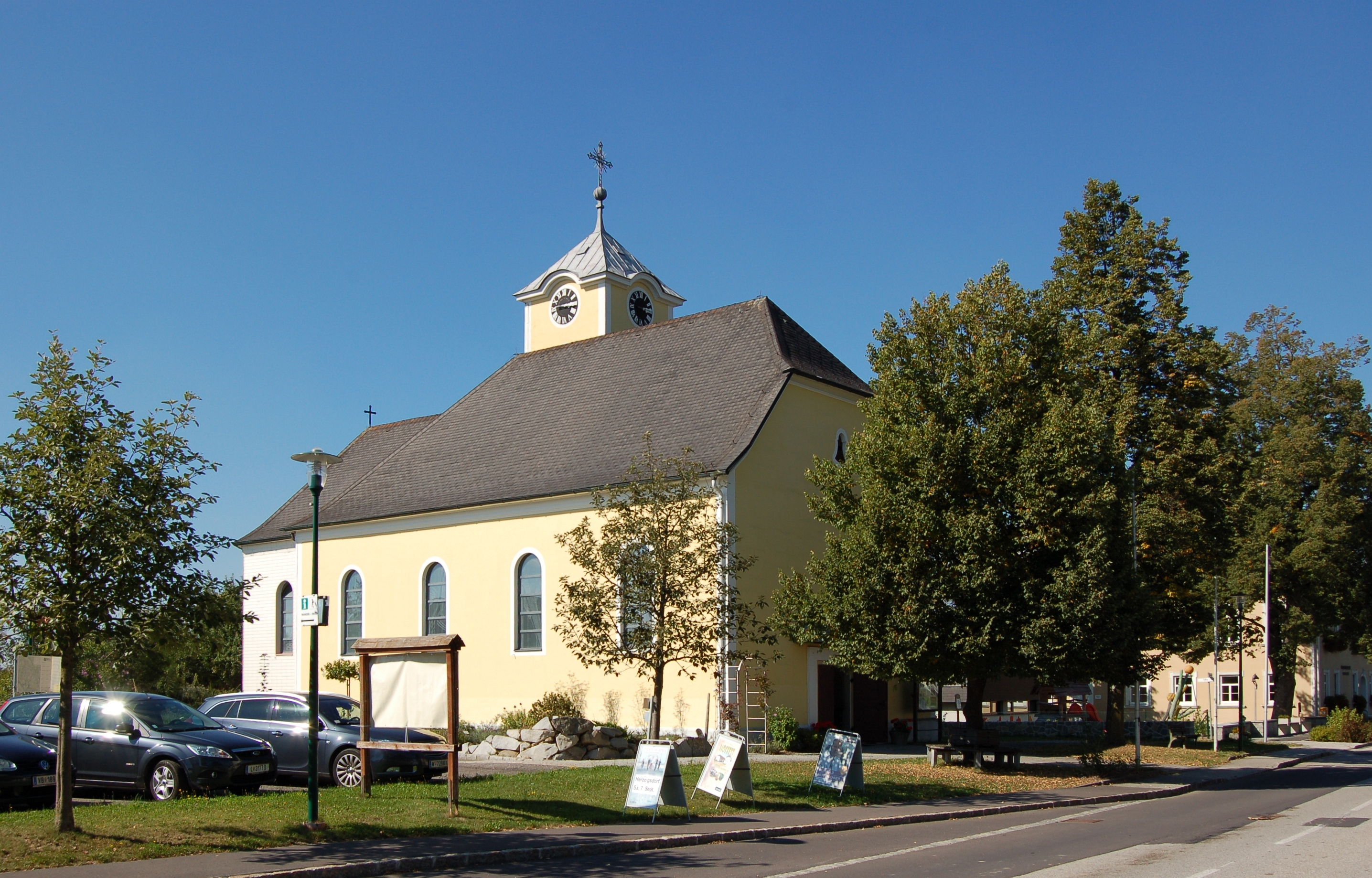 Die katholische Filialkirche Mutter Gottes von Fatima (Marienkirche) in Neußerling, Gemeinde Herzogsdorf. The making of this work was supported by Wikimedia Austria. For other files made with the support of Wikimedia Austria, please see the category Supported by Wikimedia Österreich.